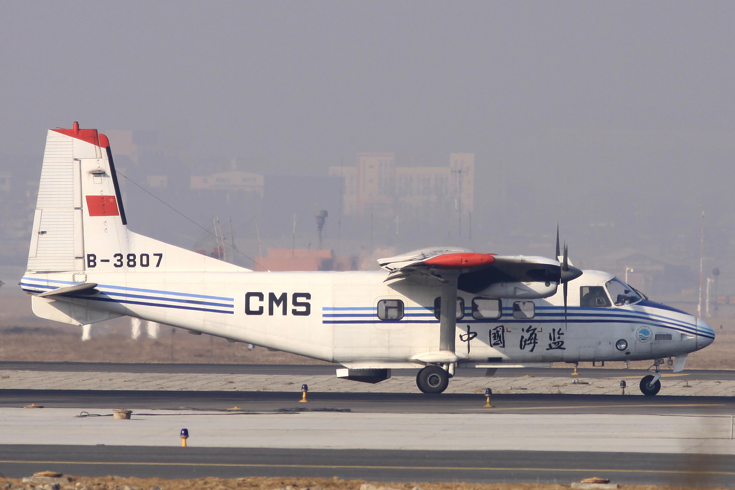 中国海监(China Marine Surveillance), Harbin Y-12-II, c/n:0016, Dalian Airport